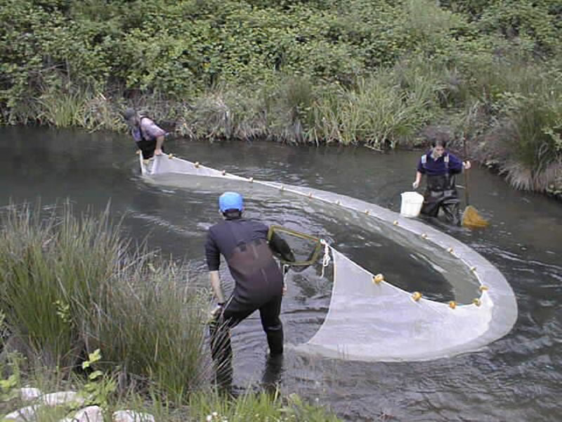 Seining for wild fish